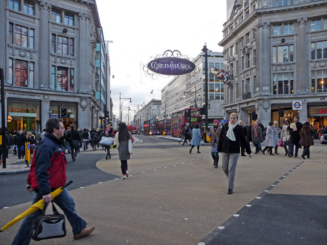 New Crossing, Oxford Circus Striding across the new crossing at Oxford Circus.